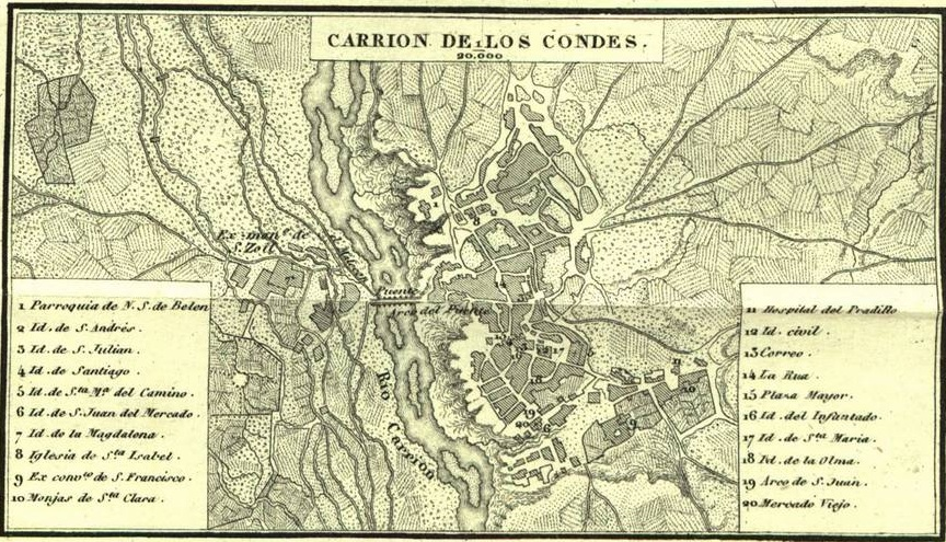 Map of Carrión de los Condes cropped from the 1852 province of Palencia map by Francisco Coello